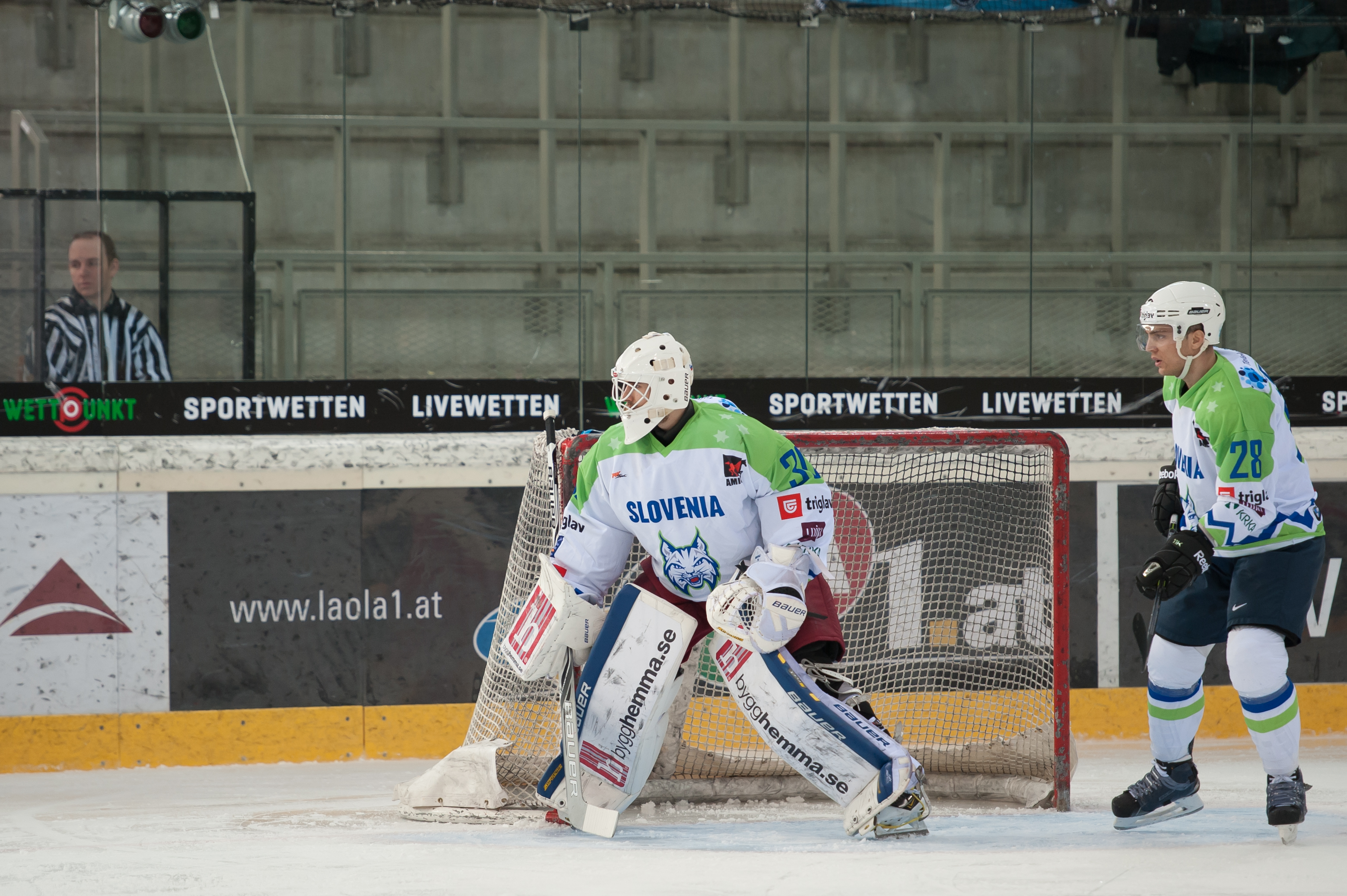 Euro Ice Hockey Challenge Vienna, February 7, 2015, Italy vs. Slovenia